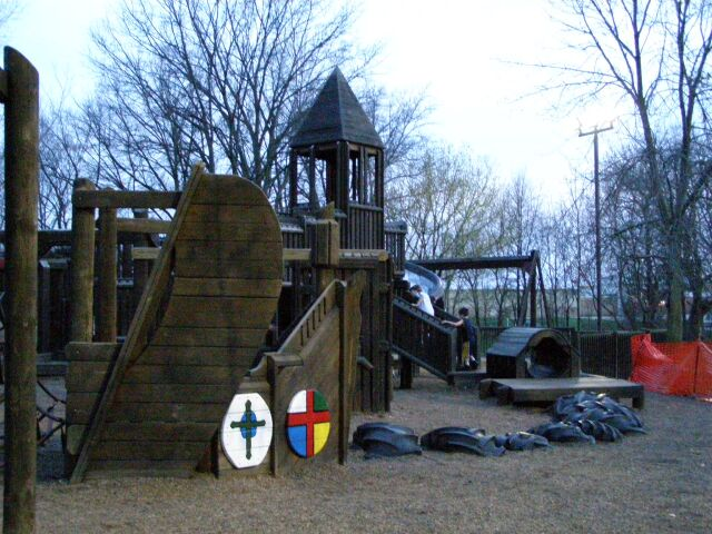 Valplayso 1 was the first community designed and built playground. It was replaced in 2015 with a new design